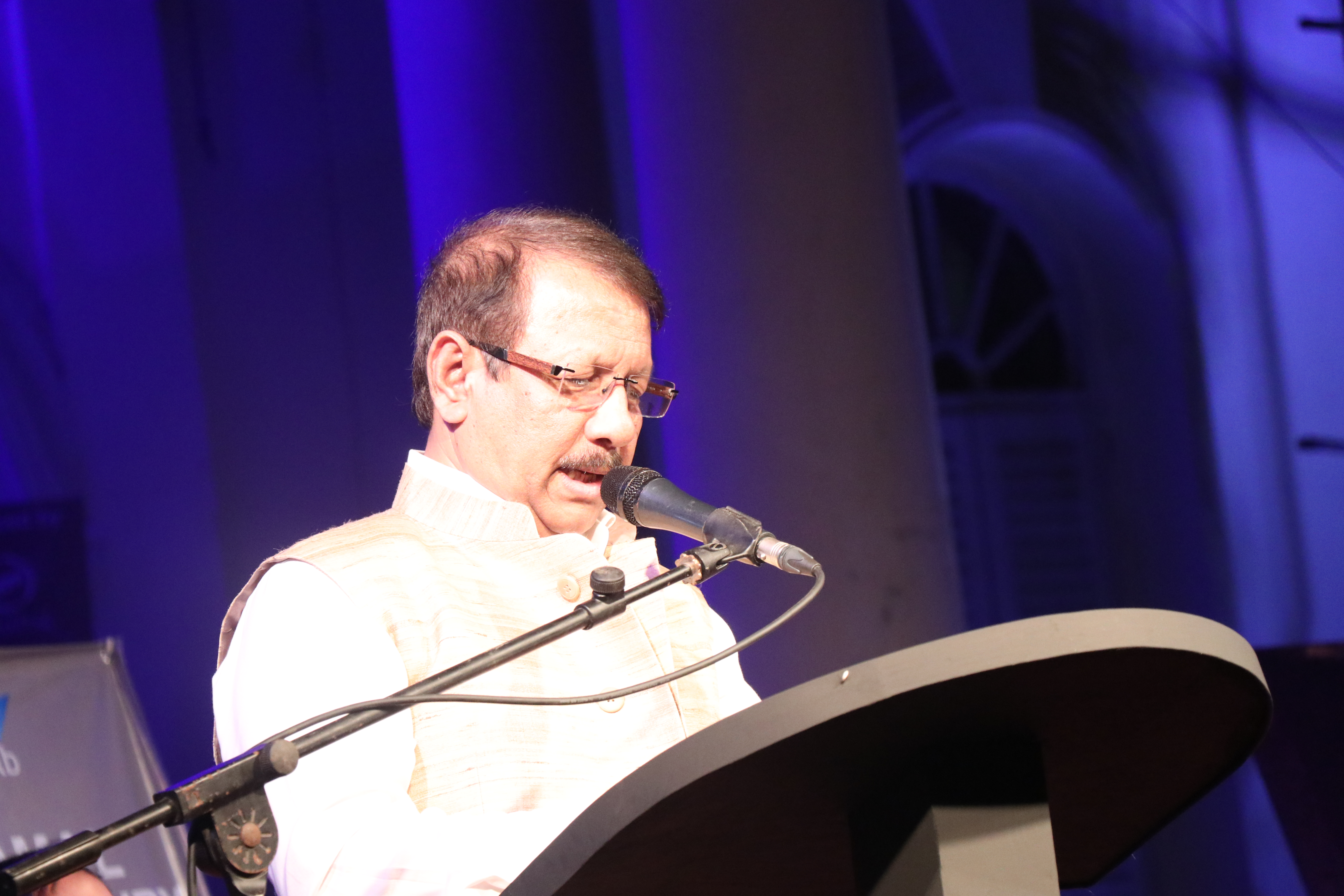 Kamal Chowdhury discuss about poetry translation at Dhaka Lit Fest 2017